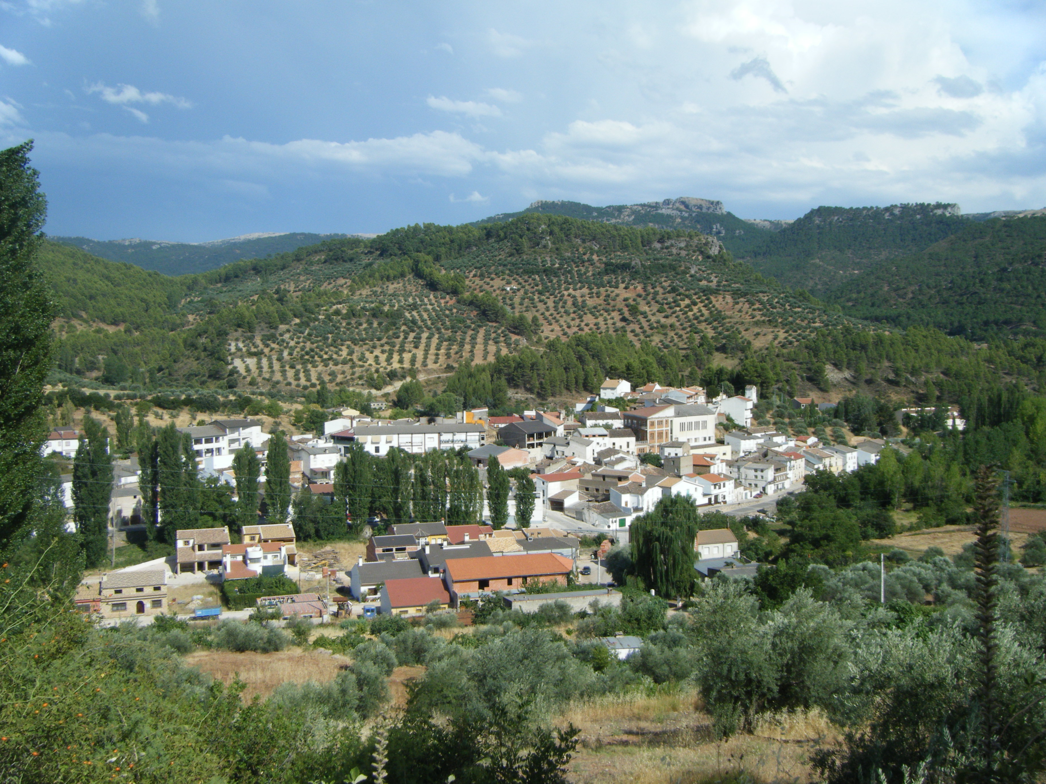 Villaverde de Guadalimar (Province of Albacete, Spain). General view